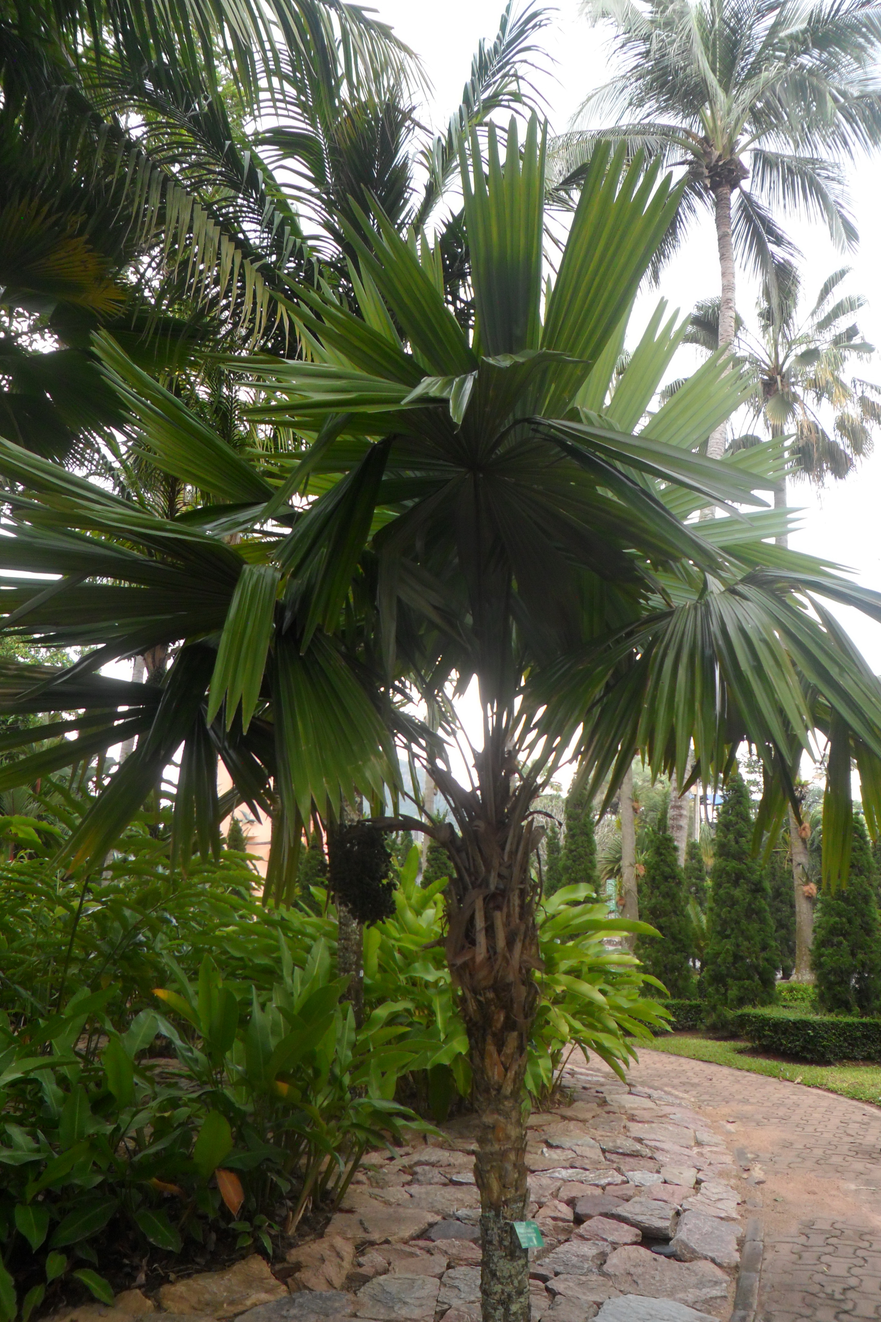 Itaya amicorum. Nong Nooch Tropical Garden.